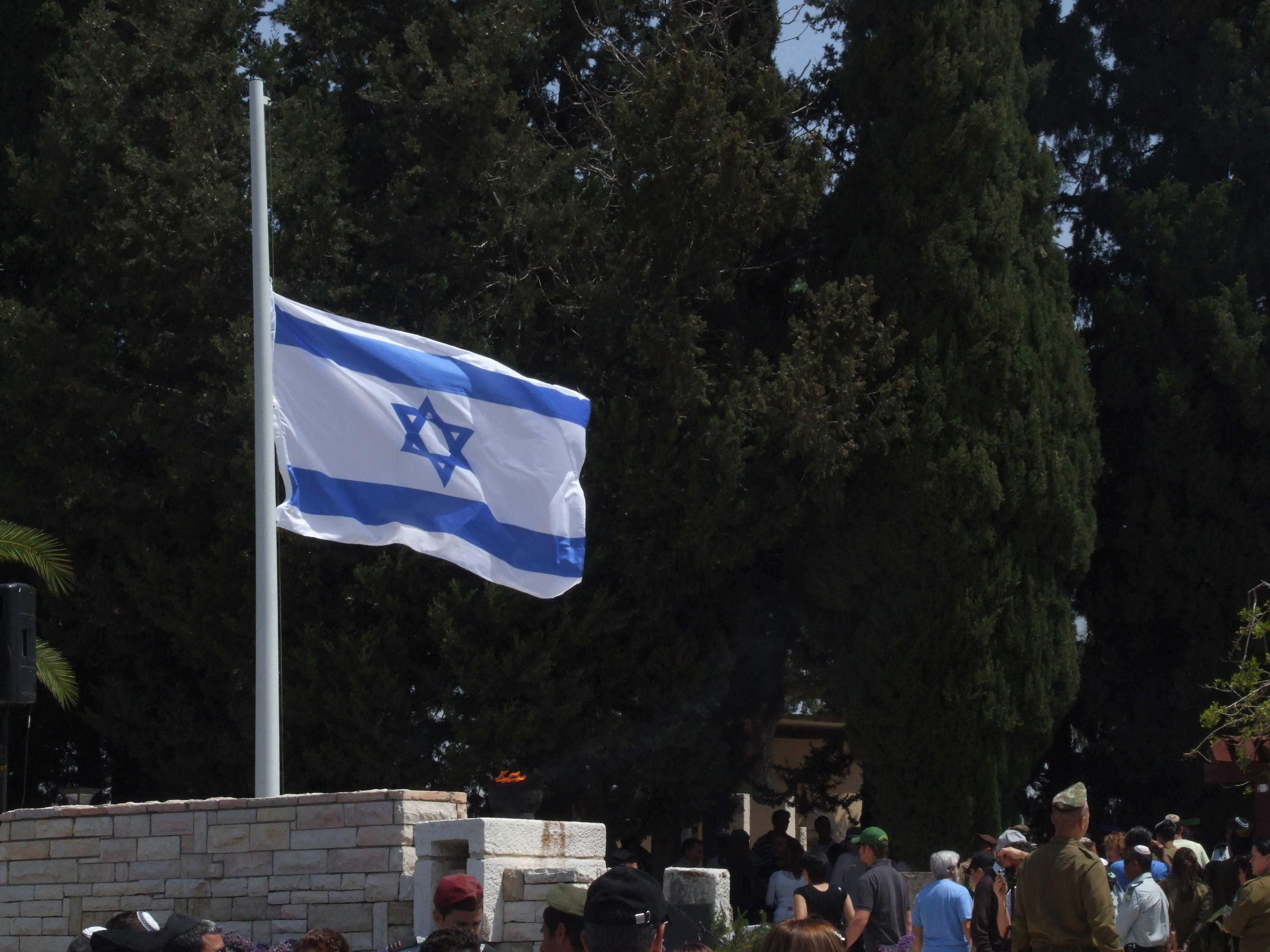 flag of Israel at half staff at a military cemetery, as a flame burns in an upturned soldier's helmet